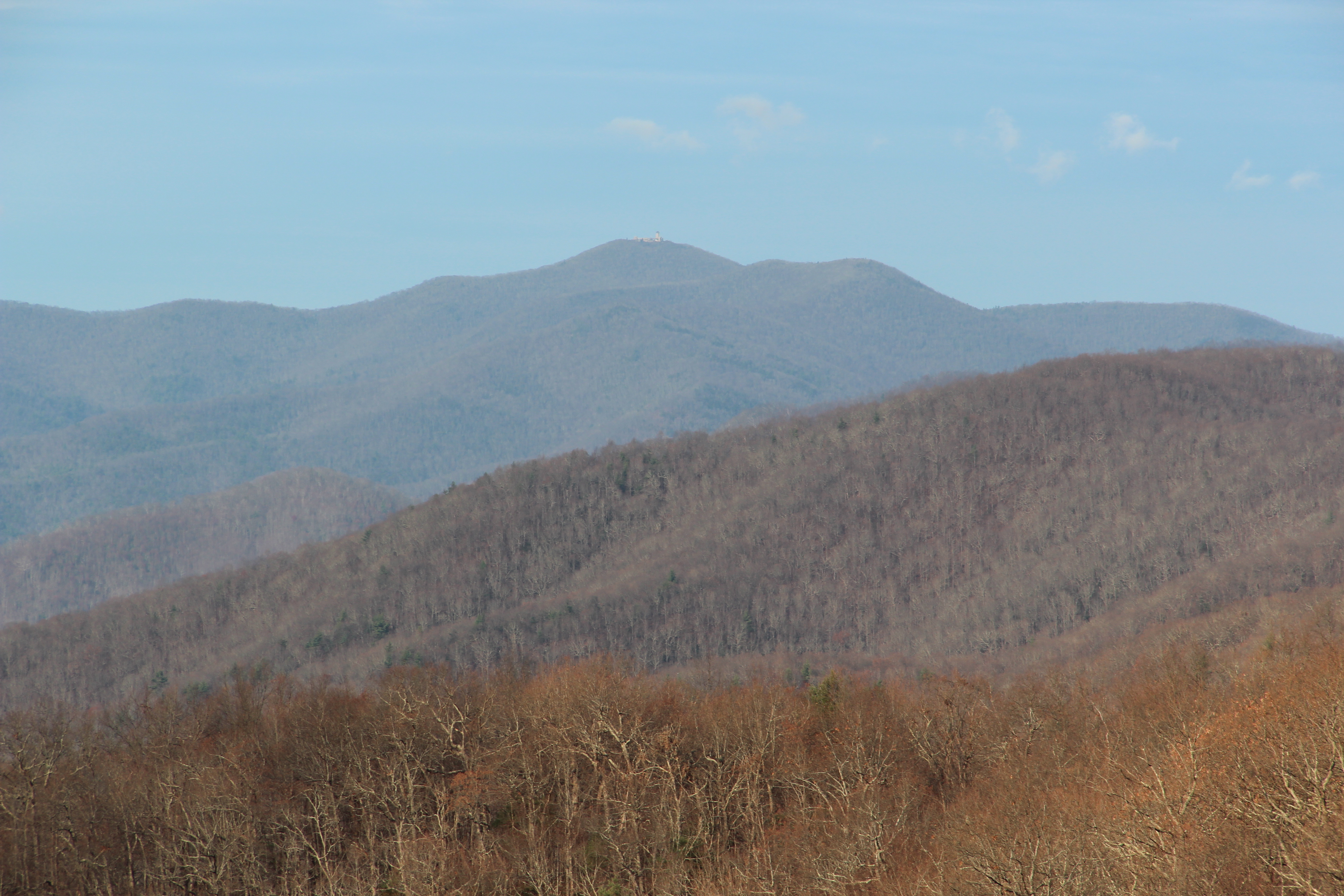 Brasstown Bald viewed from the Russell–Brasstown Scenic Byway